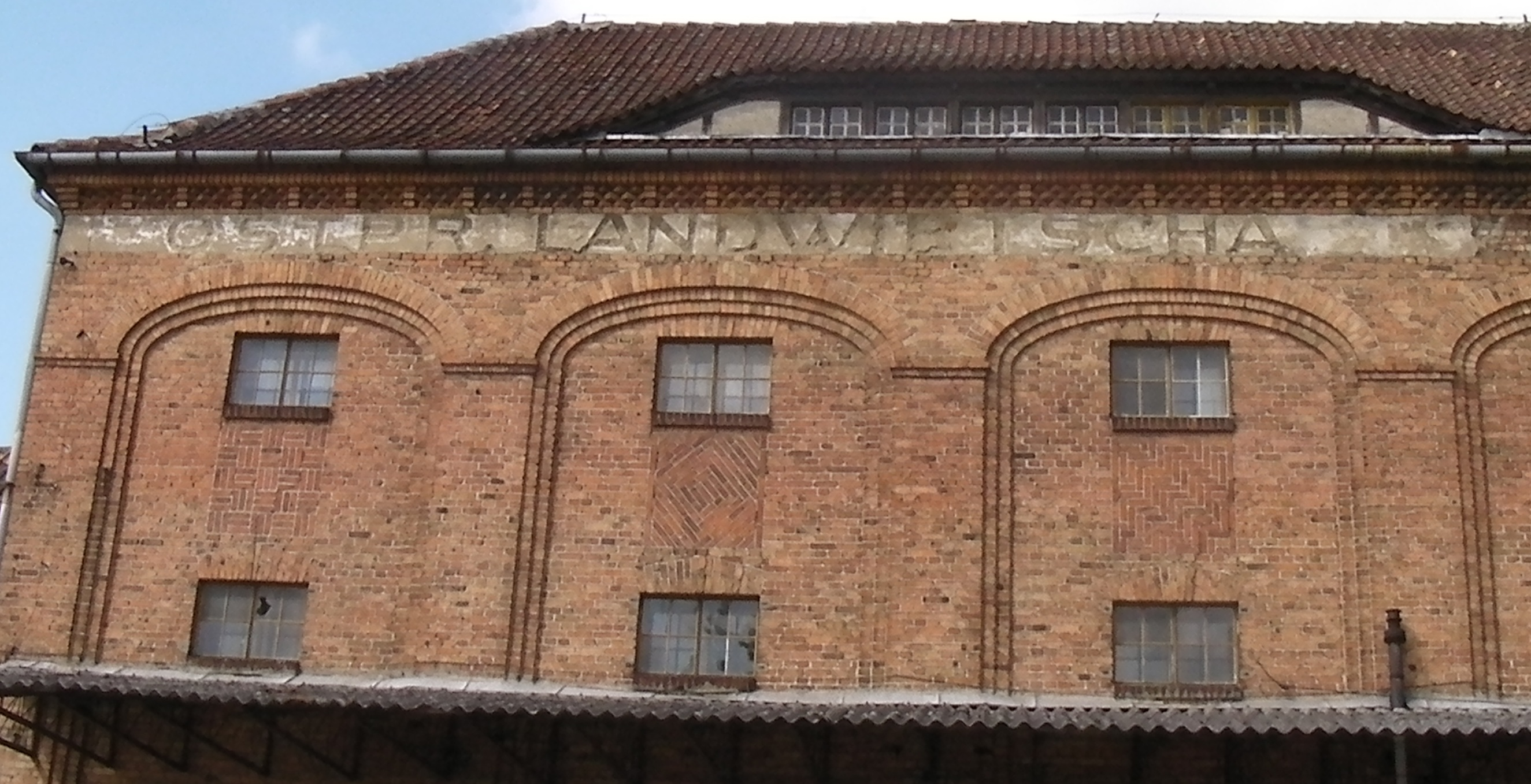 A building in Kętrzyn, Poland that must have been constructed before 1945 when the town was known as Rastenburg, Germany, since "Ostpr. Landwirtscha(fts)" (East Prussian Agricultural) is visible